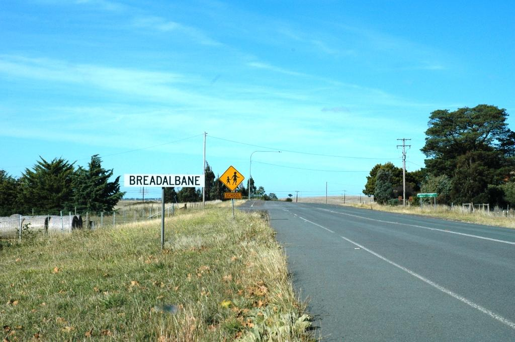 Breadalbane.